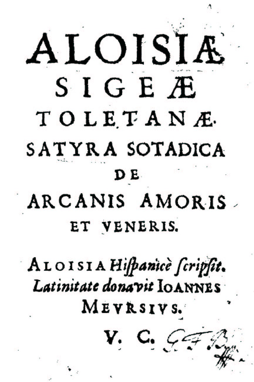 Title page of book